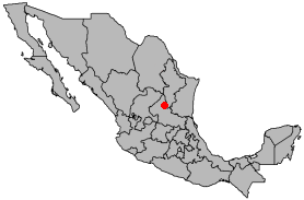 Location of Matehuala, San Luis Potosí